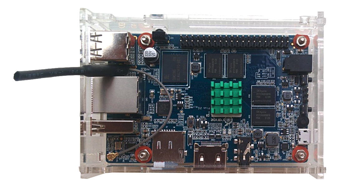 A board Orange Pi Plus 2e